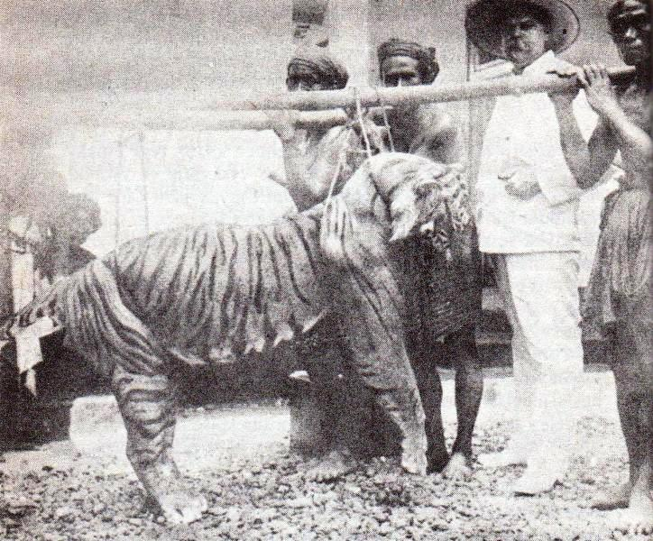 Balinese tiger killed by M. Zanveld